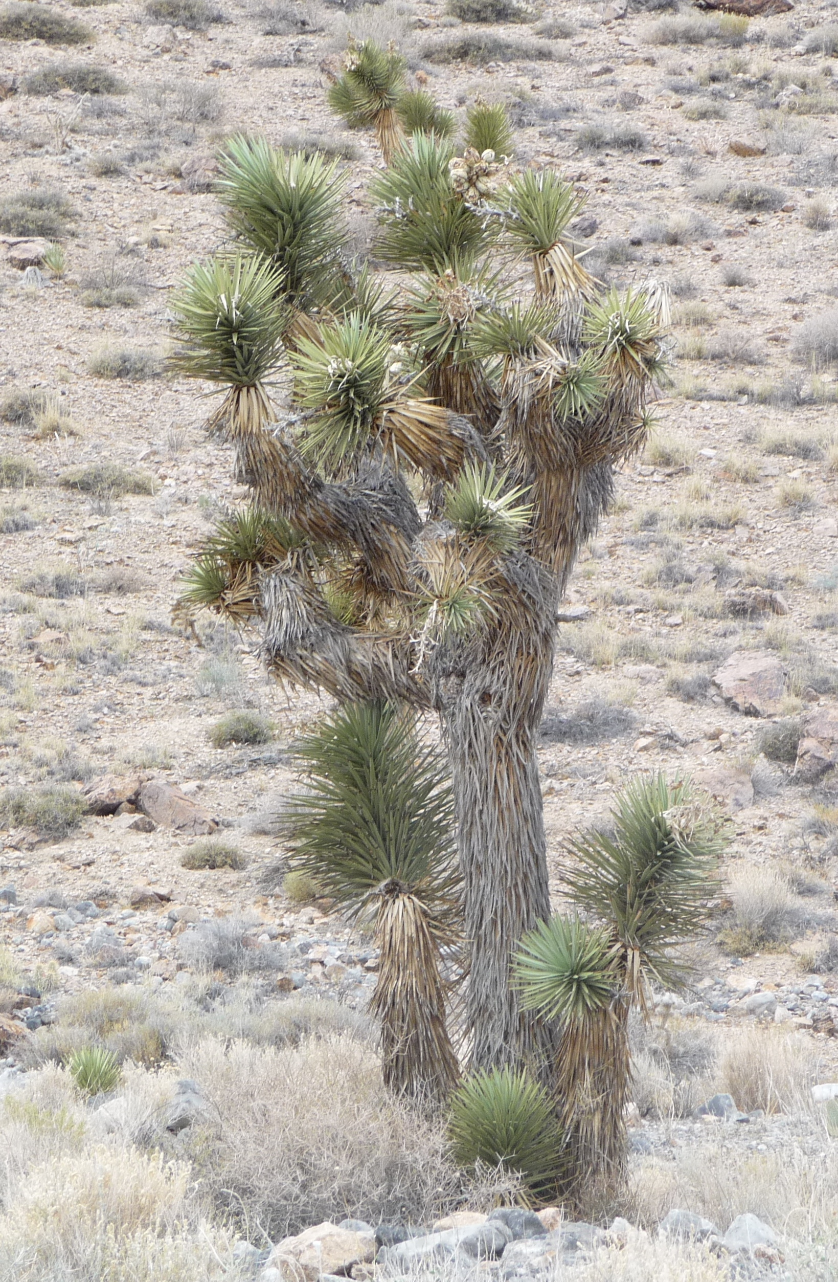 Death Valley NP - Joshua Tree near Racetrack Playa